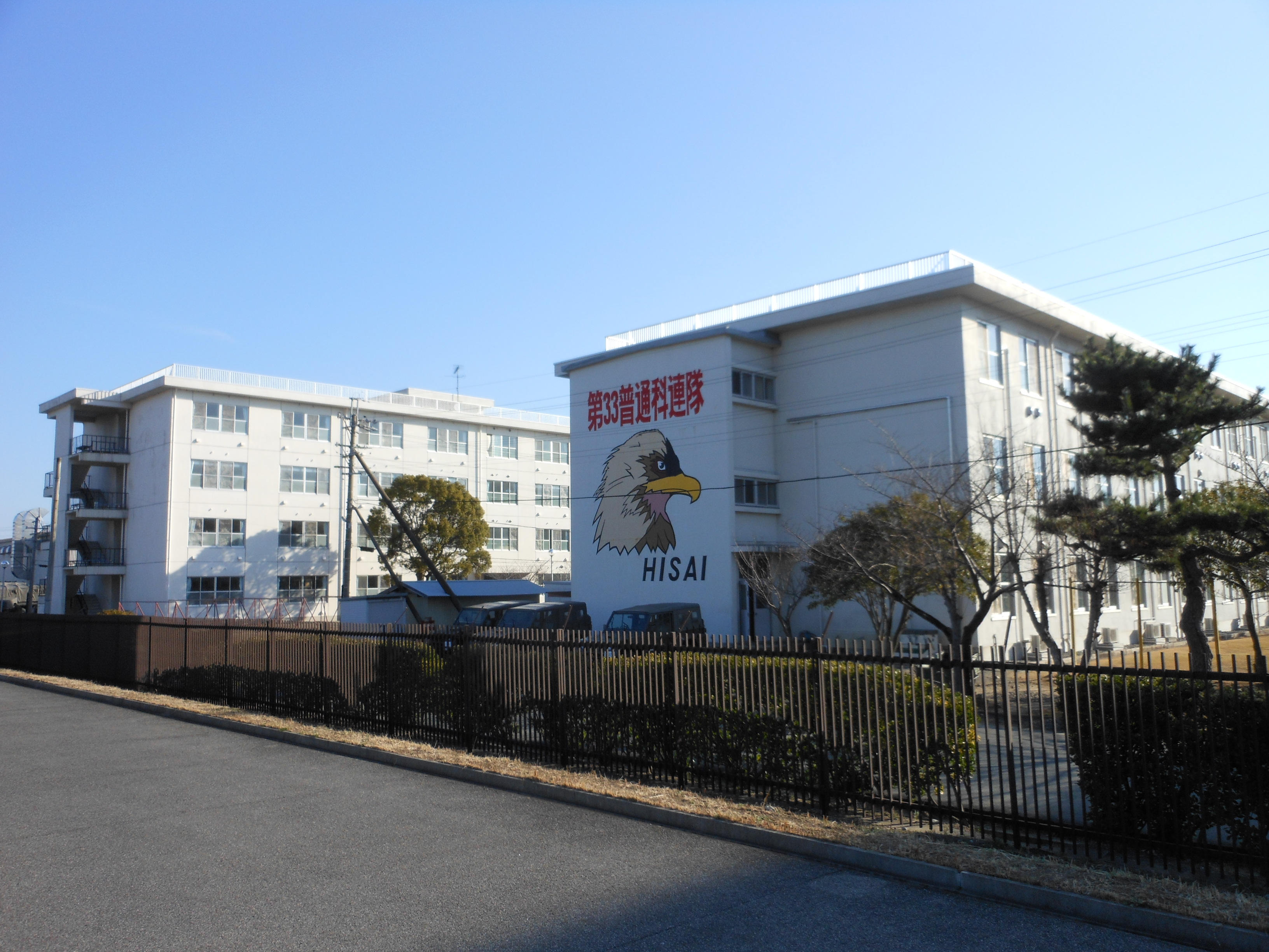 This is the JGSDF 33rd Infantry Regiment in Tsu, mie, Japan.